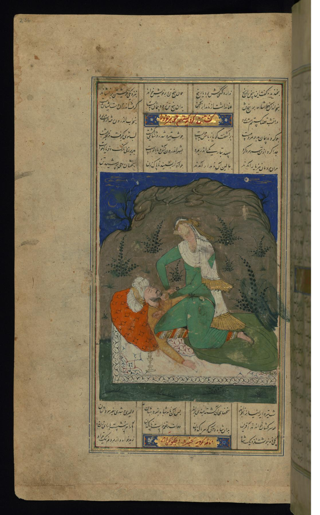 On this folio from Walters manuscript W.603, Gurdiyah, sister of Bahram Chubinah, kills her husband Gastahm.